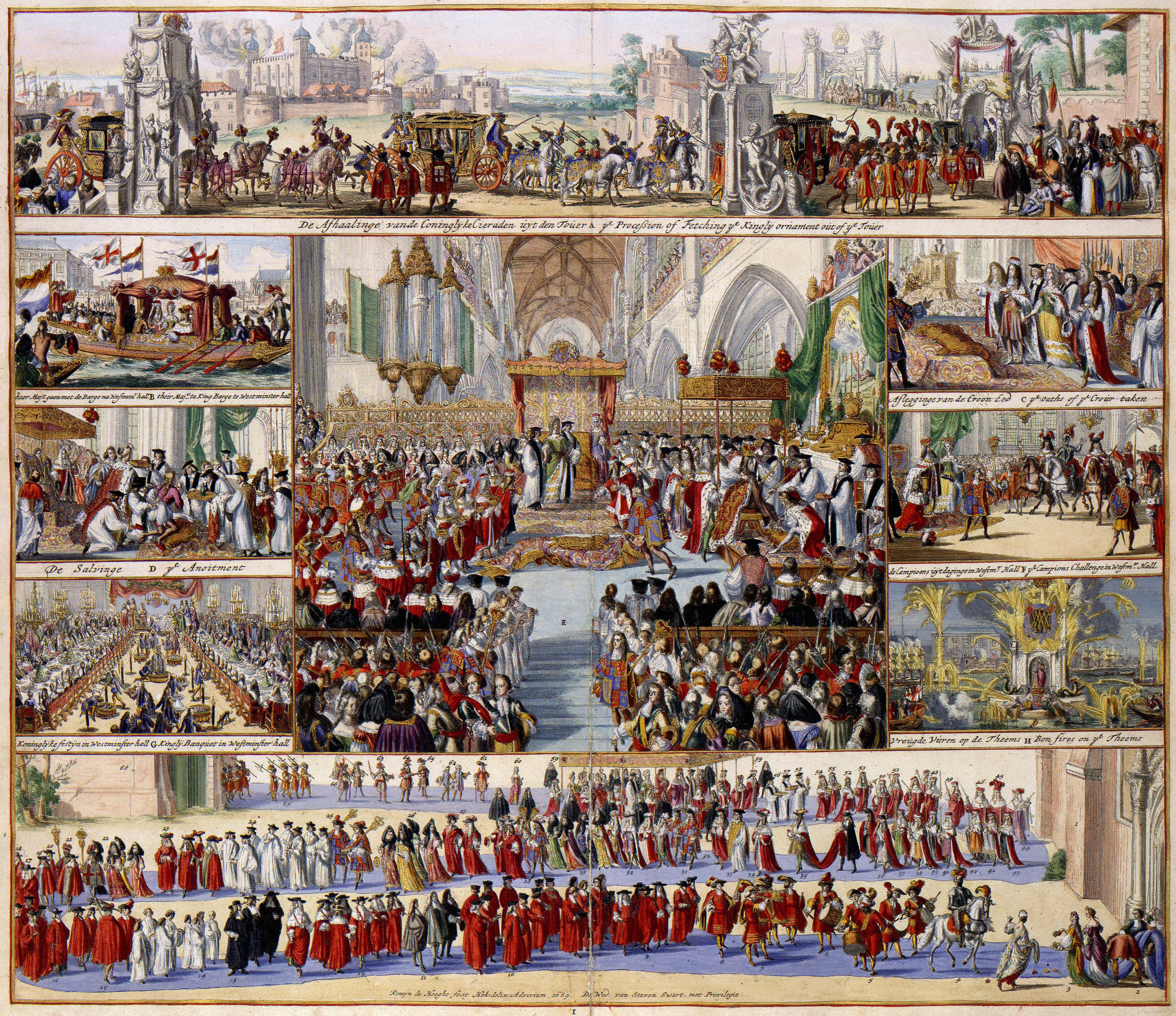 William III and his wife Mary Stuart were crowned as King and Queen of England during a session of the British House of Lords on 11 April 1689. Romeyn de Hooghe (1645-1708) documented this day in the beautiful print with 9 scenes of the coronation, from the fetching of the Crown Jewels from the Tower of London to the bonfires on the River Thames. The coronation itself is depicted in the middle of the print.